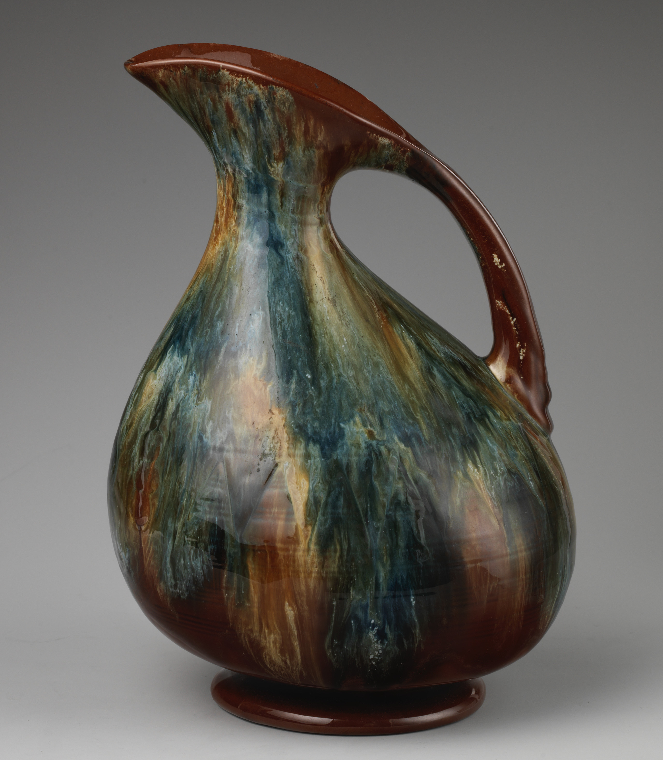 British, Linthorpe, Yorkshire; Pitcher; Ceramics-Pottery